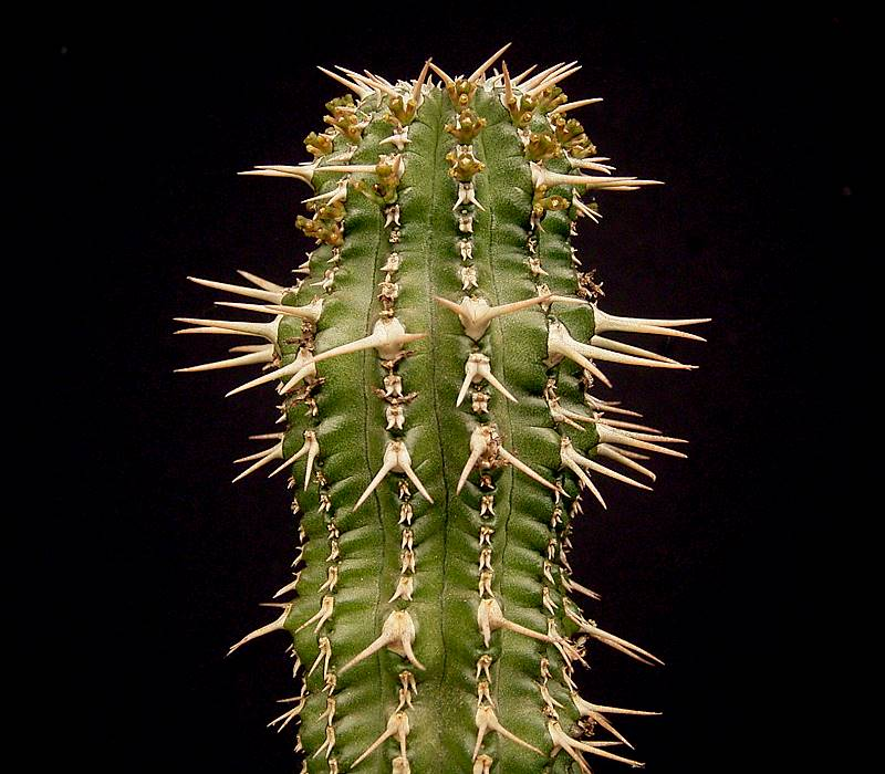 Euphorbia phillipsioides